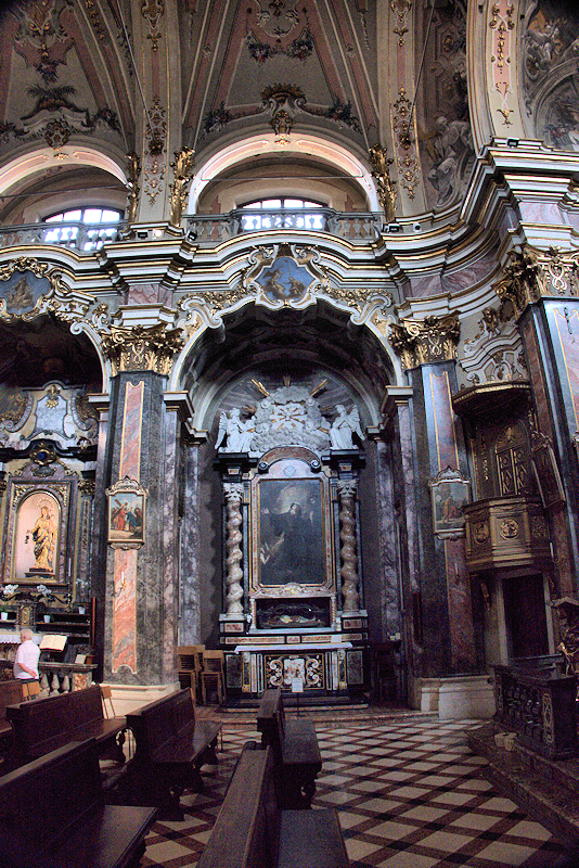 Third chapel on the left of "Santissima Trinità" church in Crema, Italy